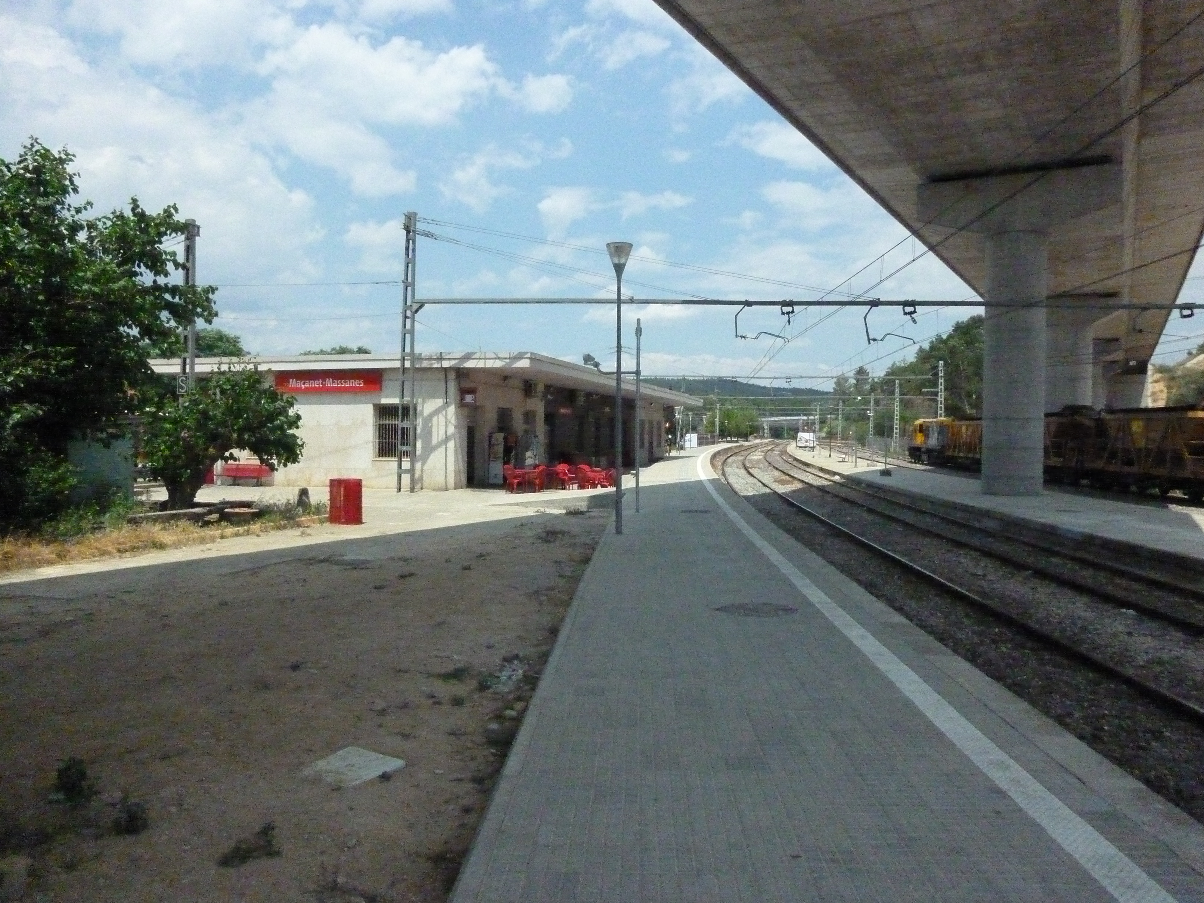 Image of Maçanet-Massanes station of Rodalies Barcelona (ADIF) in Maçanet, La Selva, Catalonia, Spain. The high speed train is expected to pass through the flyover.